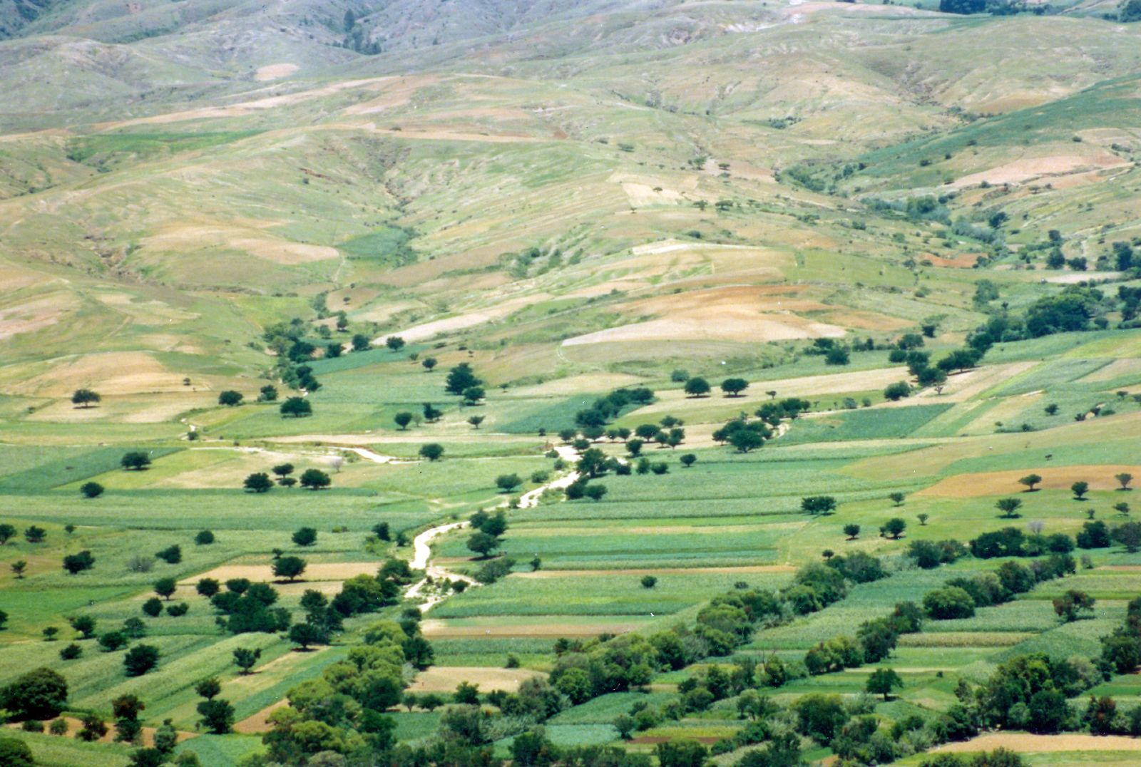 Monte Alban Countryside